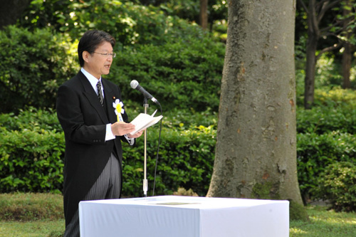 Akira Nagatsuma, Minister of Health, Labour and Welfare, addressed the Ceremony of Reverence at the Chidorigafuchi National Cemetery in Chiyoda Ward, Tōkyō Metropolis on May 31, 2010.